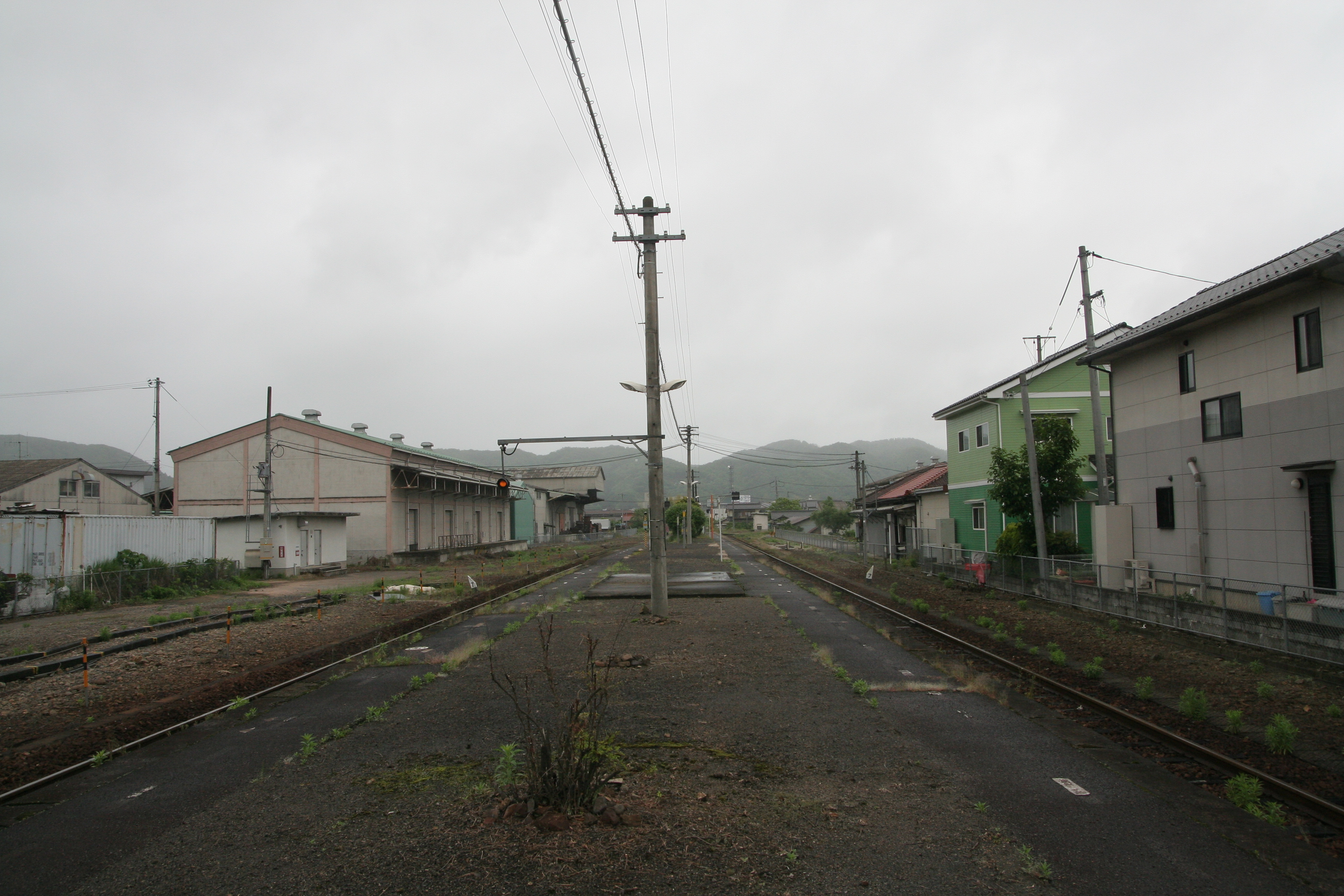 JR West Geibi Line Nishi-Miyoshi Station enclosure